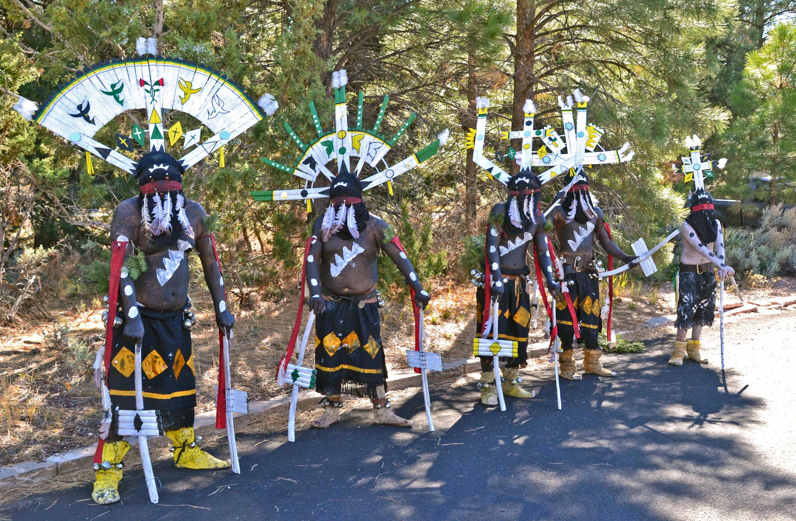 On, Thursday, November 18, Grand Canyon National Park celebrated Native American Heritage Month with a day of special events. . . In this photo, the Dishchii' Bikoh' Apache Group from Cibecue, Arizona, demonstrates the Apache Crown Dance.. . Native American Heritage Month is a time to pay tribute to the many accomplishments, contributions and sacrifices of the indigenous peoples of North America.. . What started at the turn of the century as an effort to gain a day of recognition for the significant contributions the First Americans made to the establishment and growth of the United States has resulted in a whole month being designated for that purpose.. . This is the second year that Grand Canyon National Park has celebrated Native American Heritage Month. Our celebration will continue to grow and evolve as we strengthen the relationships with our associated tribes.. . NPS Photo by Michael Quinn